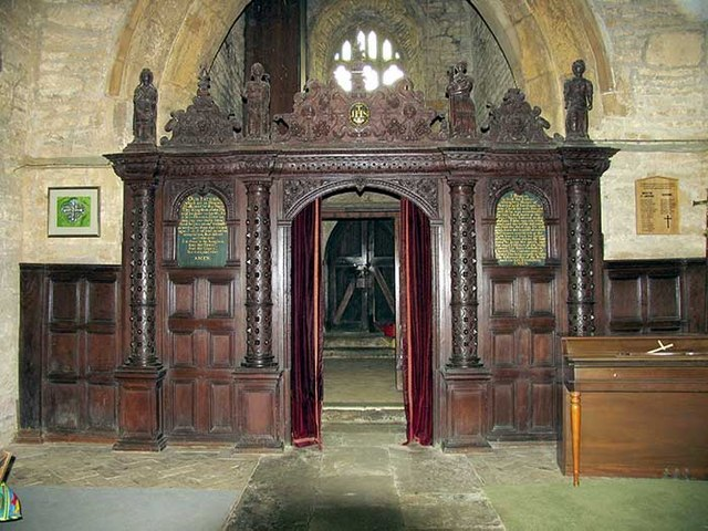 St Lawrence Church, Marston St Lawrence, Northamptonshire - Screen